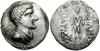 Eukratides II possible Sogdian imitation